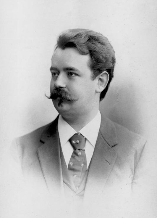 German violinist Karl Prill (1864-1931)